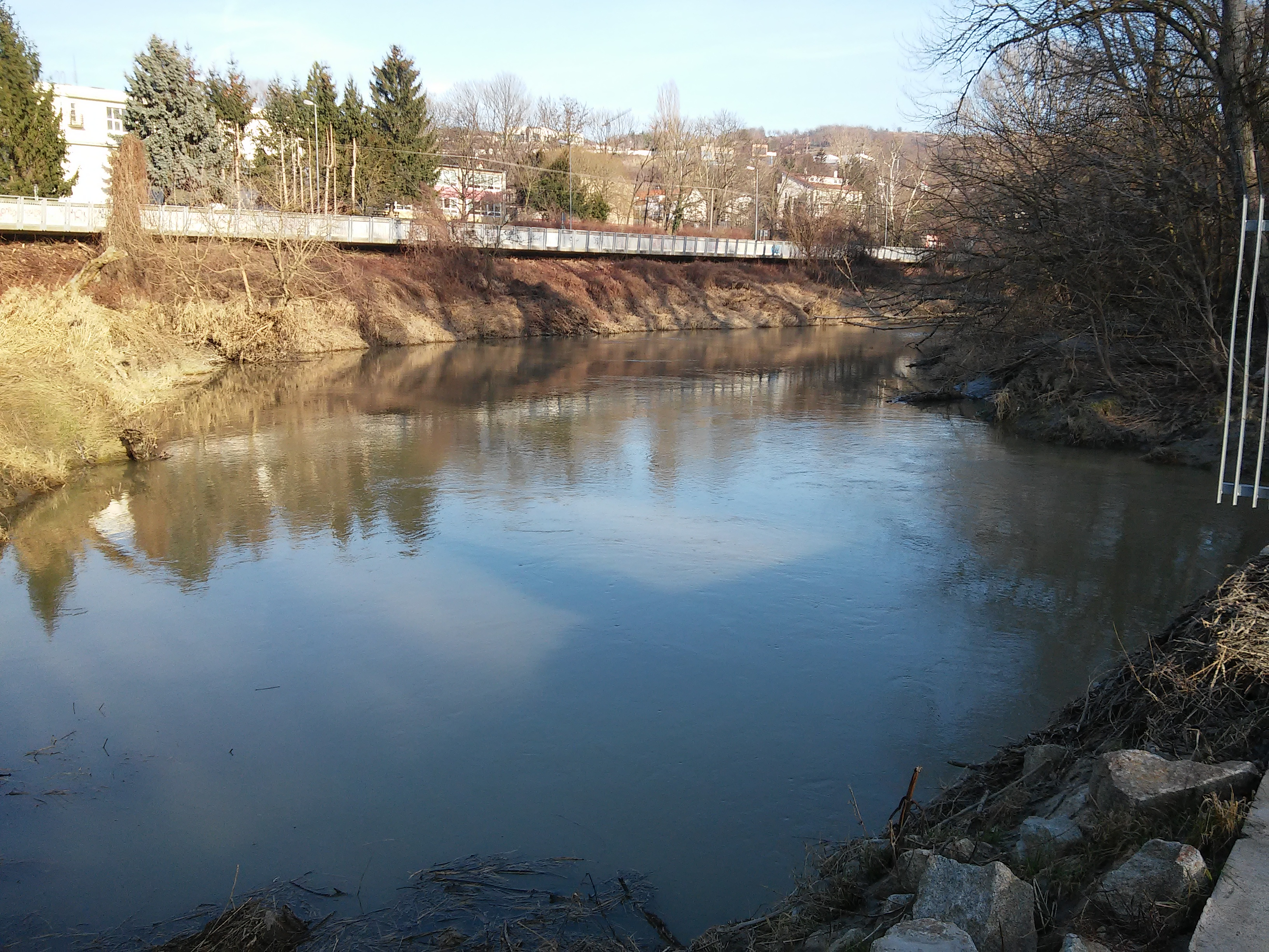 Devínske rameno river branch in Devín, Bratislava, Slovakia